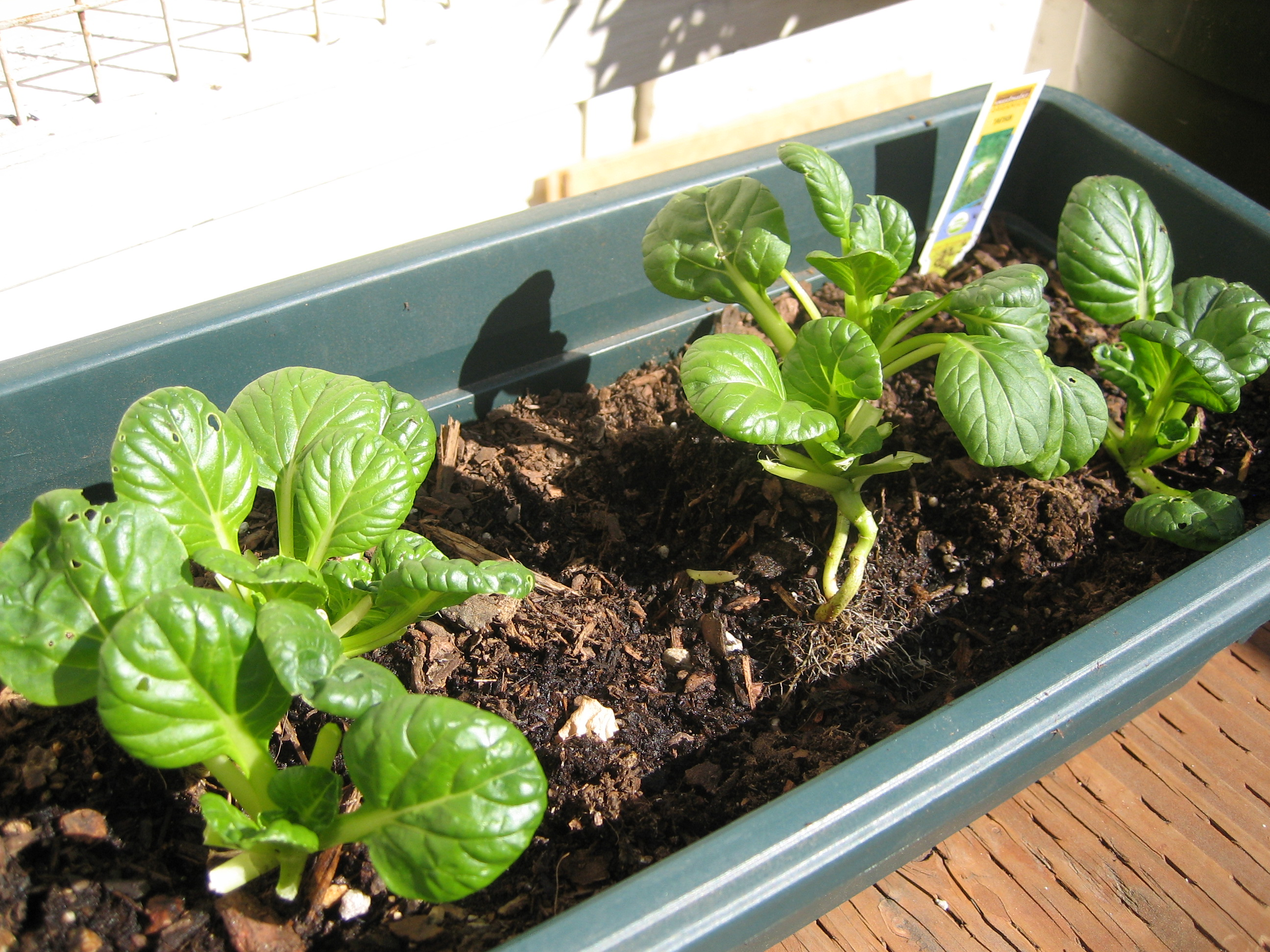 Tatsoi being grown in a container.